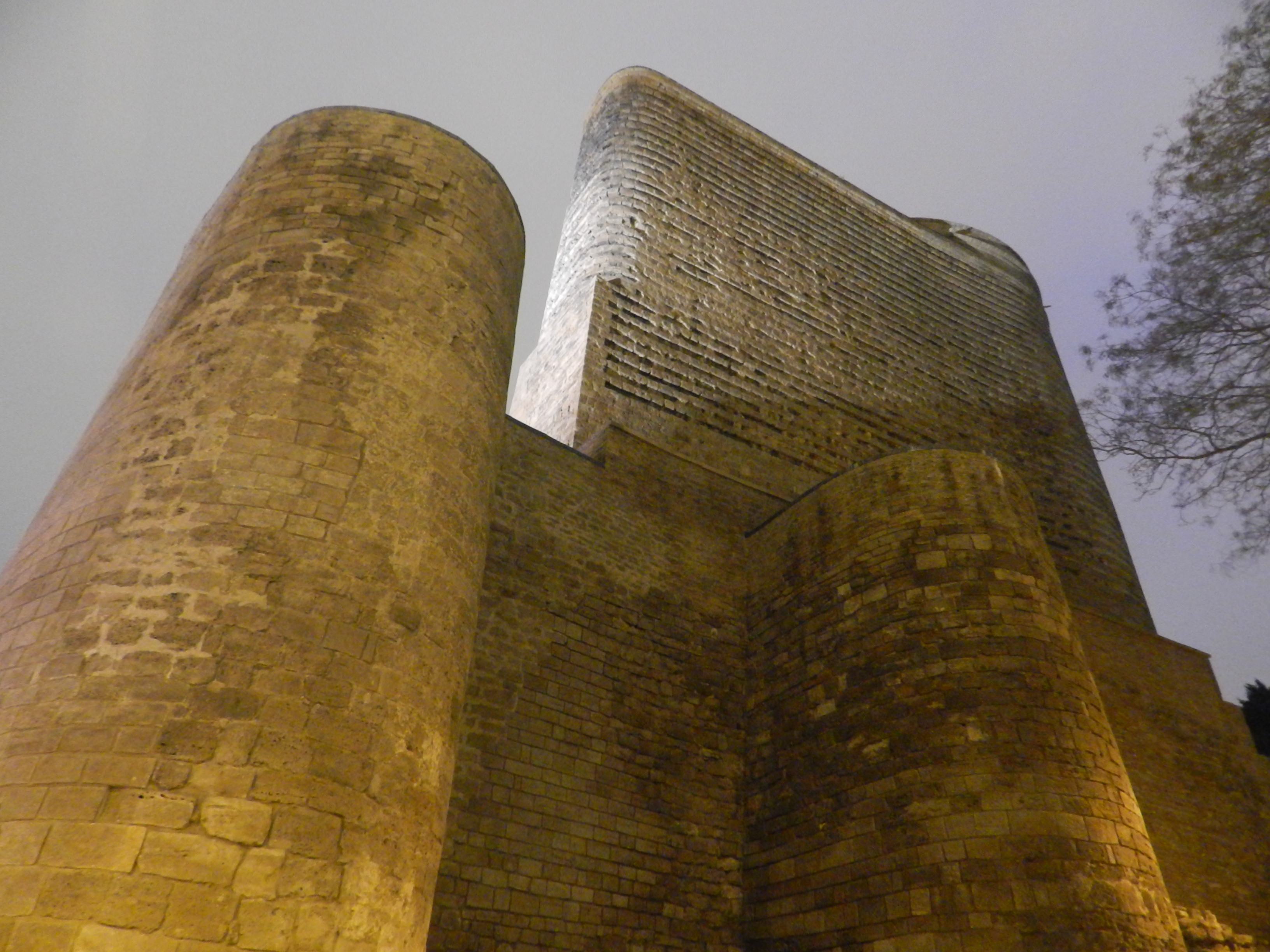 Baku 2014